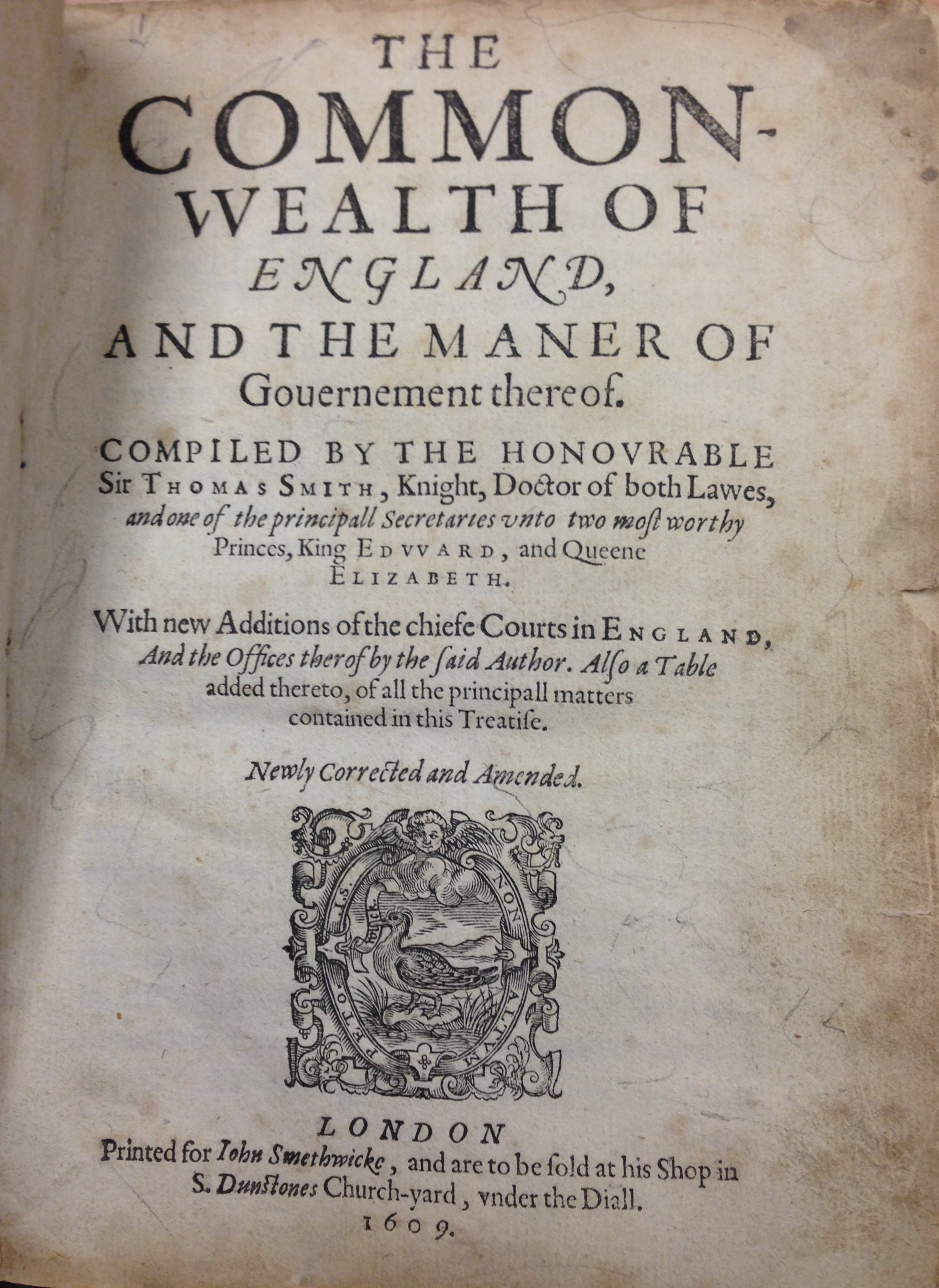 The title page of Thomas Smith (1609) The Common-vvealth of England, and the Maner of Gouernement thereof. Compiled by the Honovrable Sir Thomas Smith, Knight, Doctor of both Lawes, and One of the Principall Secretaries vnto two moſt Worthy Princes, King Edvvard, and Queene Elizabeth. With New Additions of the Chiefe Courts in England, and the Offices thereof by the ſaid Author. Alſo a Table Added thereto, of All the Principall Matters Contained in this Treatiſe. Newly Corrected and Amended, London: Printed [by John Windet] for Iohn Smethwicke, and are to be ſold at his Shop in S. Dunstones Church-yard, vnder the Diall OCLC: 20191820.